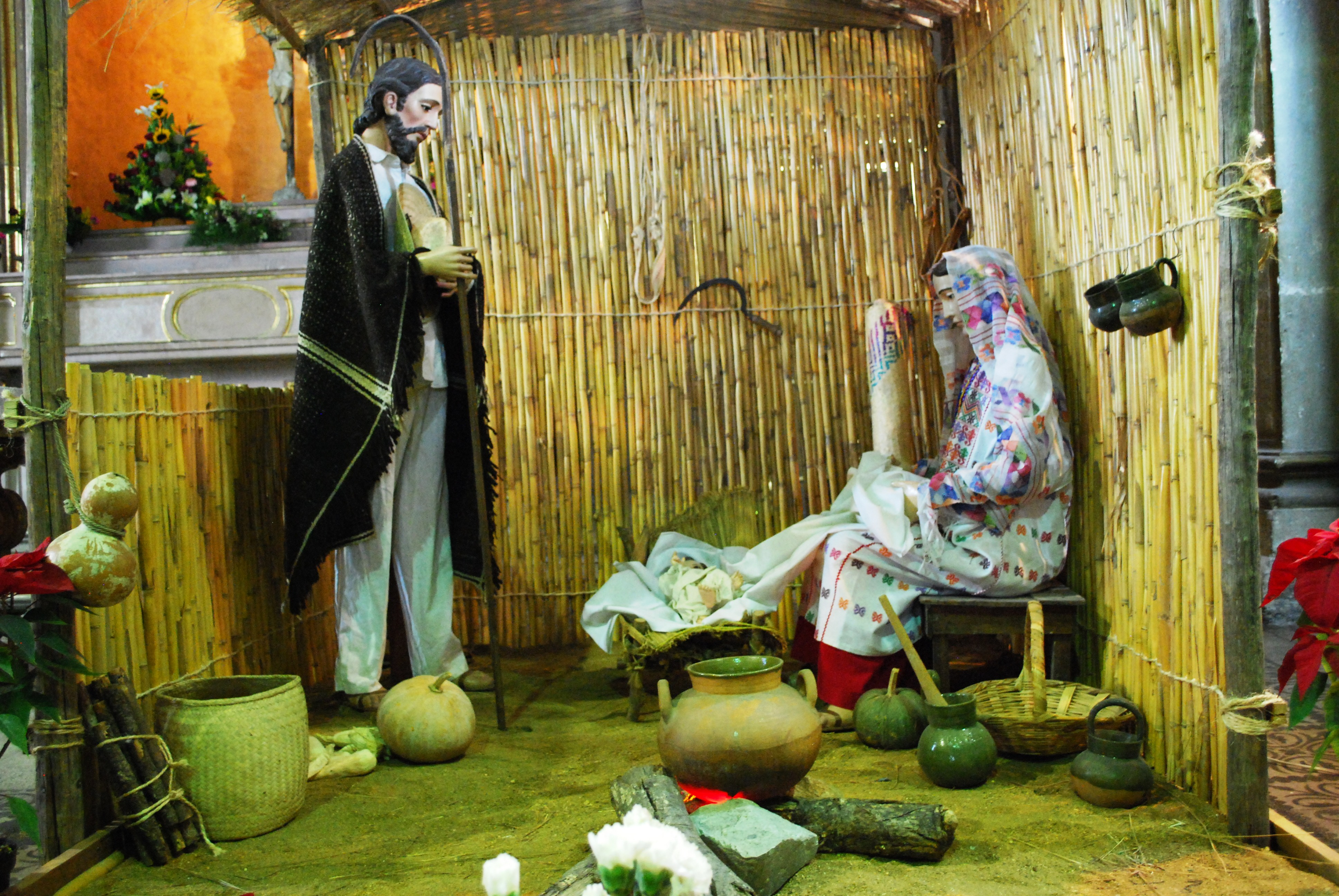 Nativity scene at the Church of the Company of Jesus. Joseph and Mary are dressed in Oaxacan costume. In Oaxaca city , Mexico